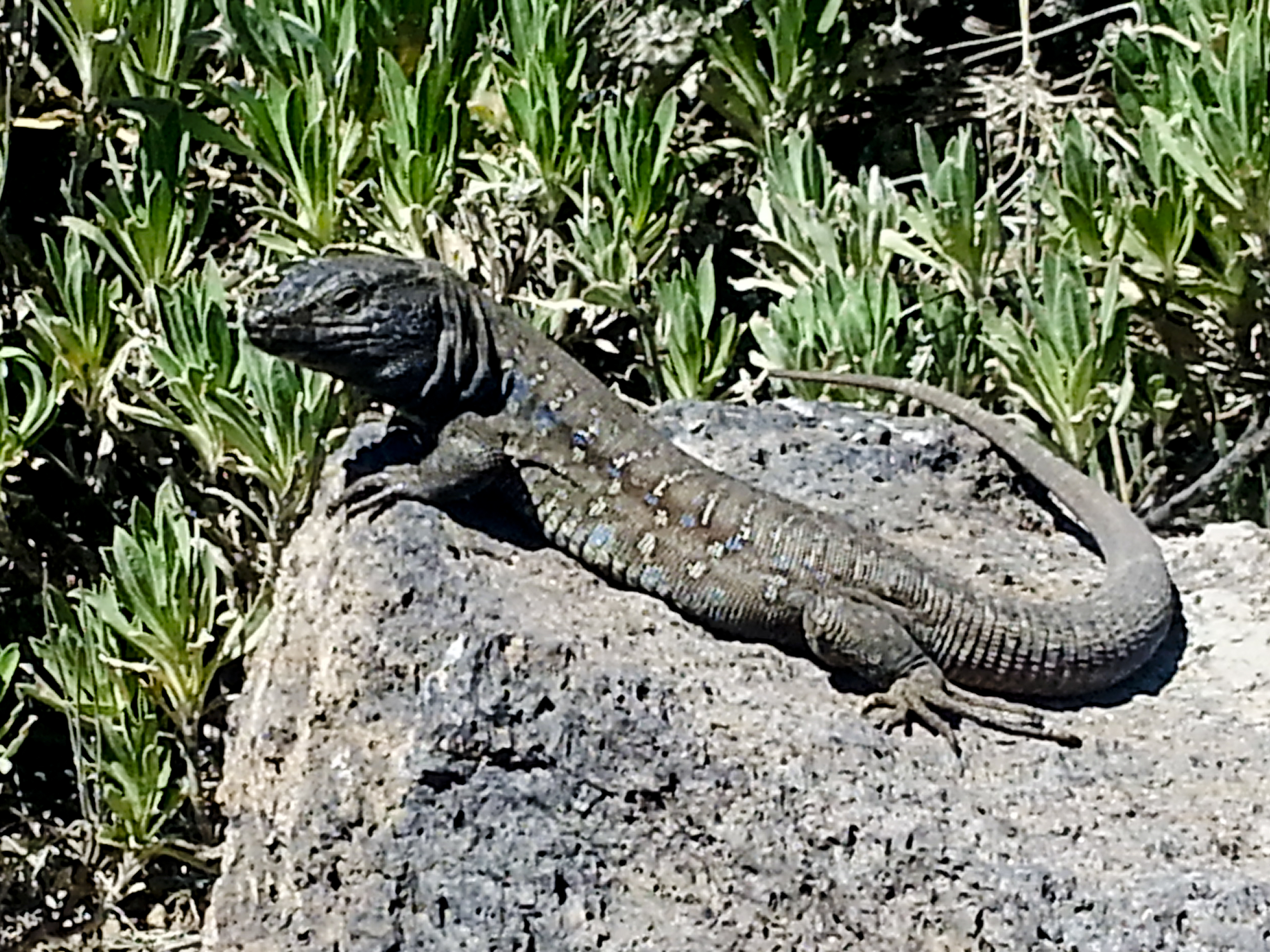 Gallotia galloti galloti (male) El Portillo - Teide National Park